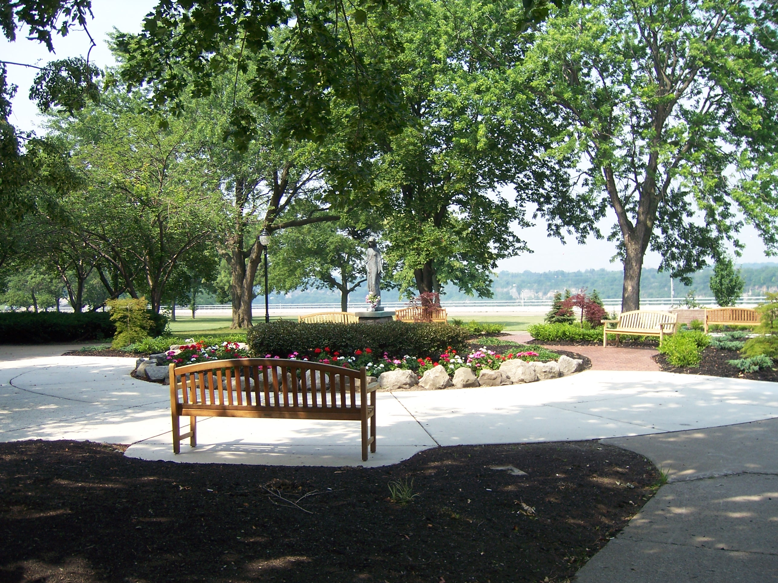 The campus overlooking the Niagara Gorge